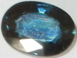 Dark blue sapphire with green tint, probably of Australian origin, demonstrates the brilliant surface luster typical of corundum gemstones. This stone is approximately 1.0 carat.